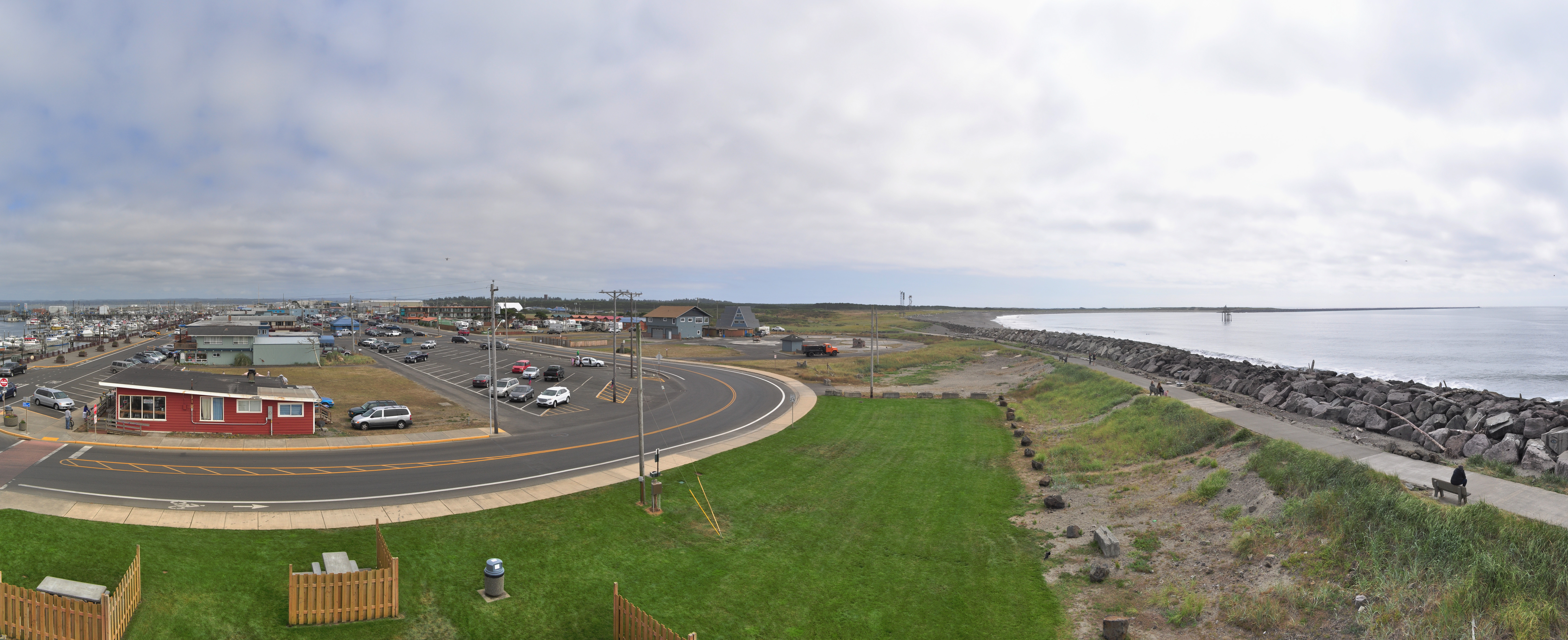 Panoramic view of Westport, Washington, U.S. from waterside viewing tower This image was created with Hugin